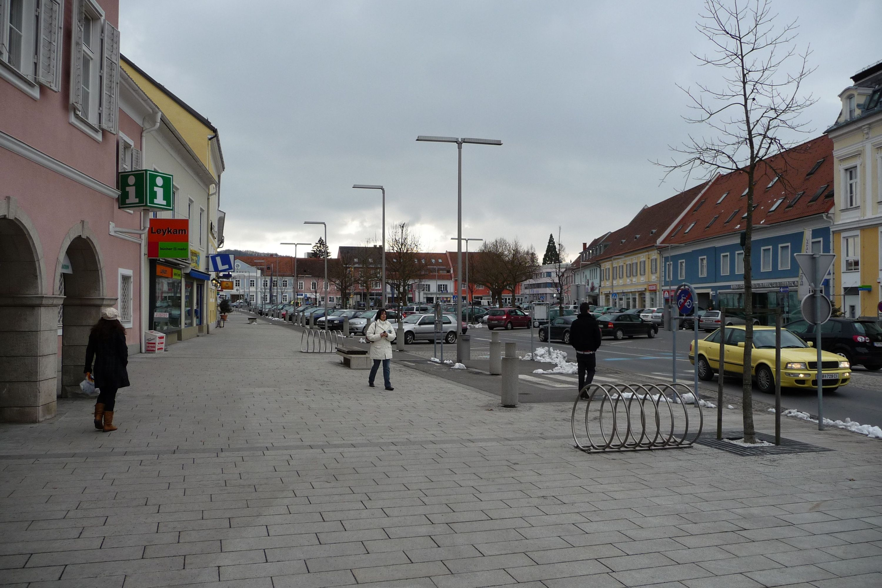 Main Square in Feldbach, Styria